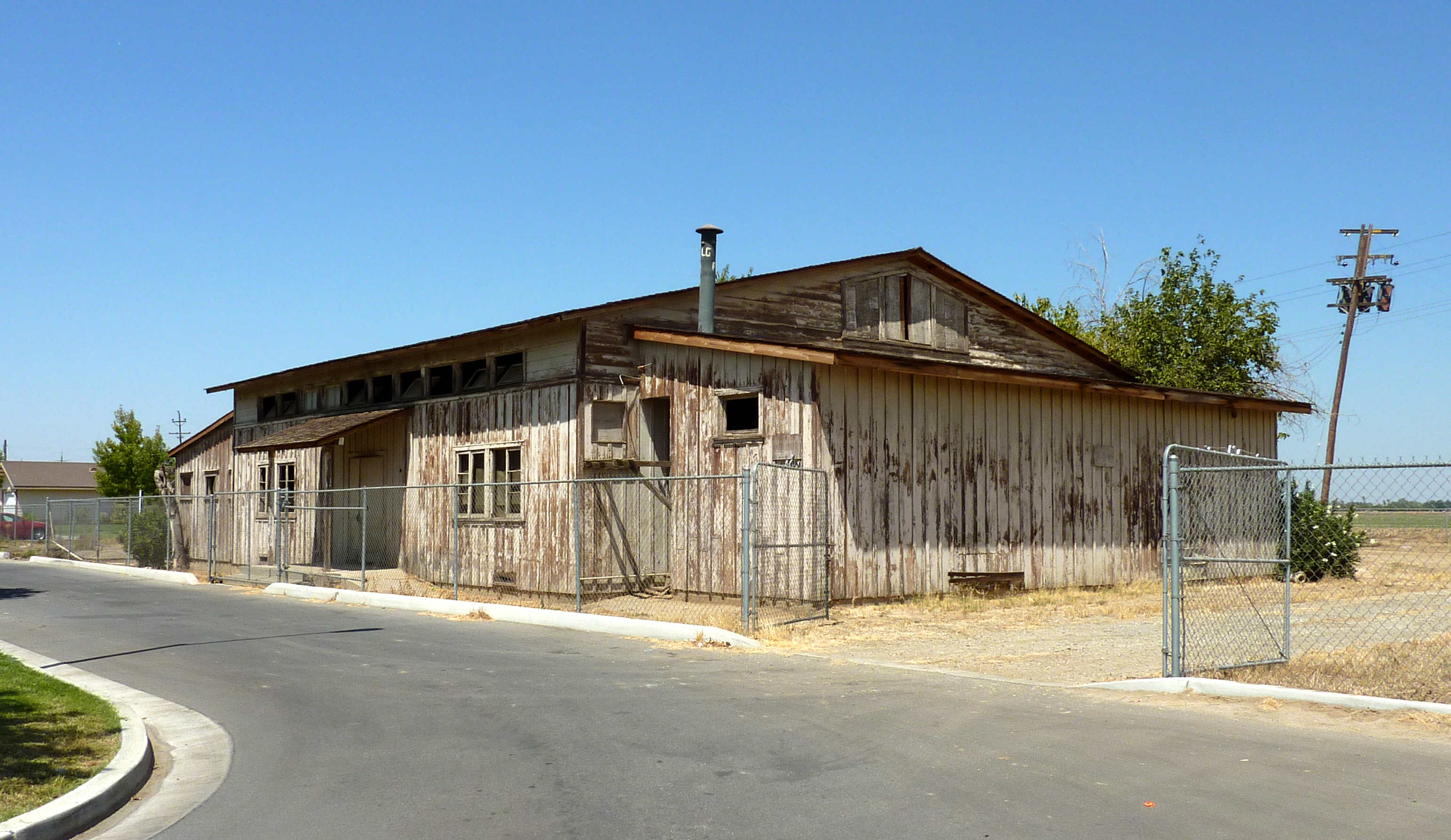 Community Hall of the Weedpatch Camp (also known as the Arvin Federal Government Camp and the Sunset Labor Camp) — in outer Bakersfield, southern San Joaquin Valley, California. Built by the WPA—Works Progress Administration. The plight of the Okies and a description of Weedpatch Camp were chronicled by novelist John Steinbeck in his book The Grapes of Wrath. On the National Register of Historic Places in Kern County, California.